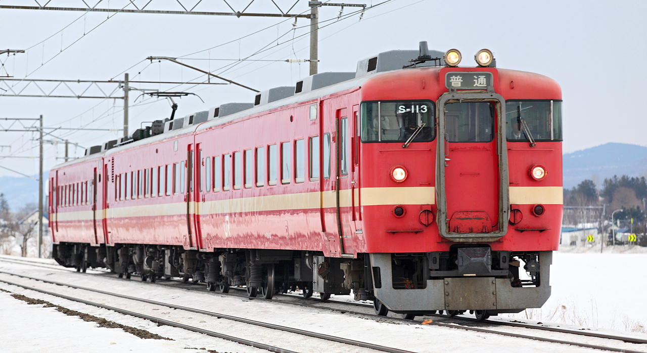 JR Hokkaido 711 series 3-car EMU set S-113 on the Hakodate Main Line between Minenobu and Iwamizawa stations